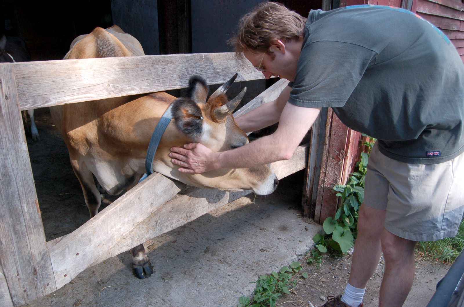 Jerseys are very curious and will often come and check you out.